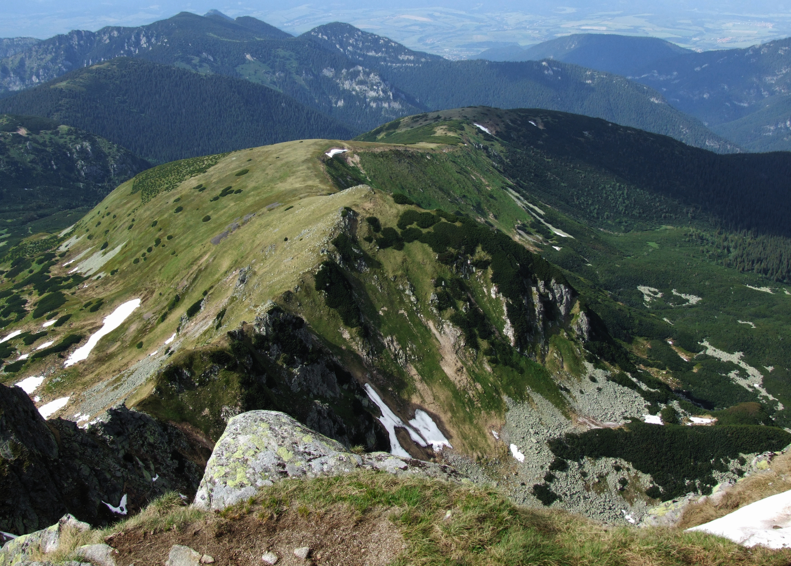 Low Tatras - view from Ďumbier peak